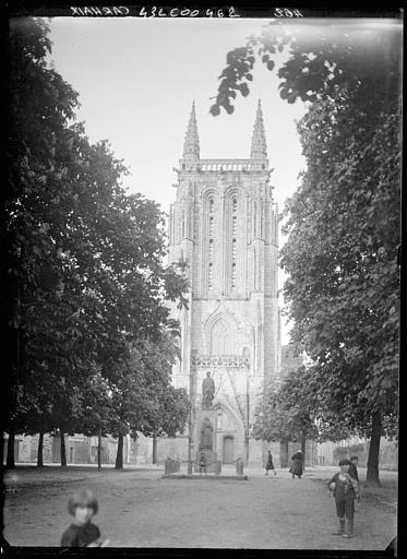 The Church of Saint Trémeur in Carhaix, Carhaix-Plouguer, Finistère, France.